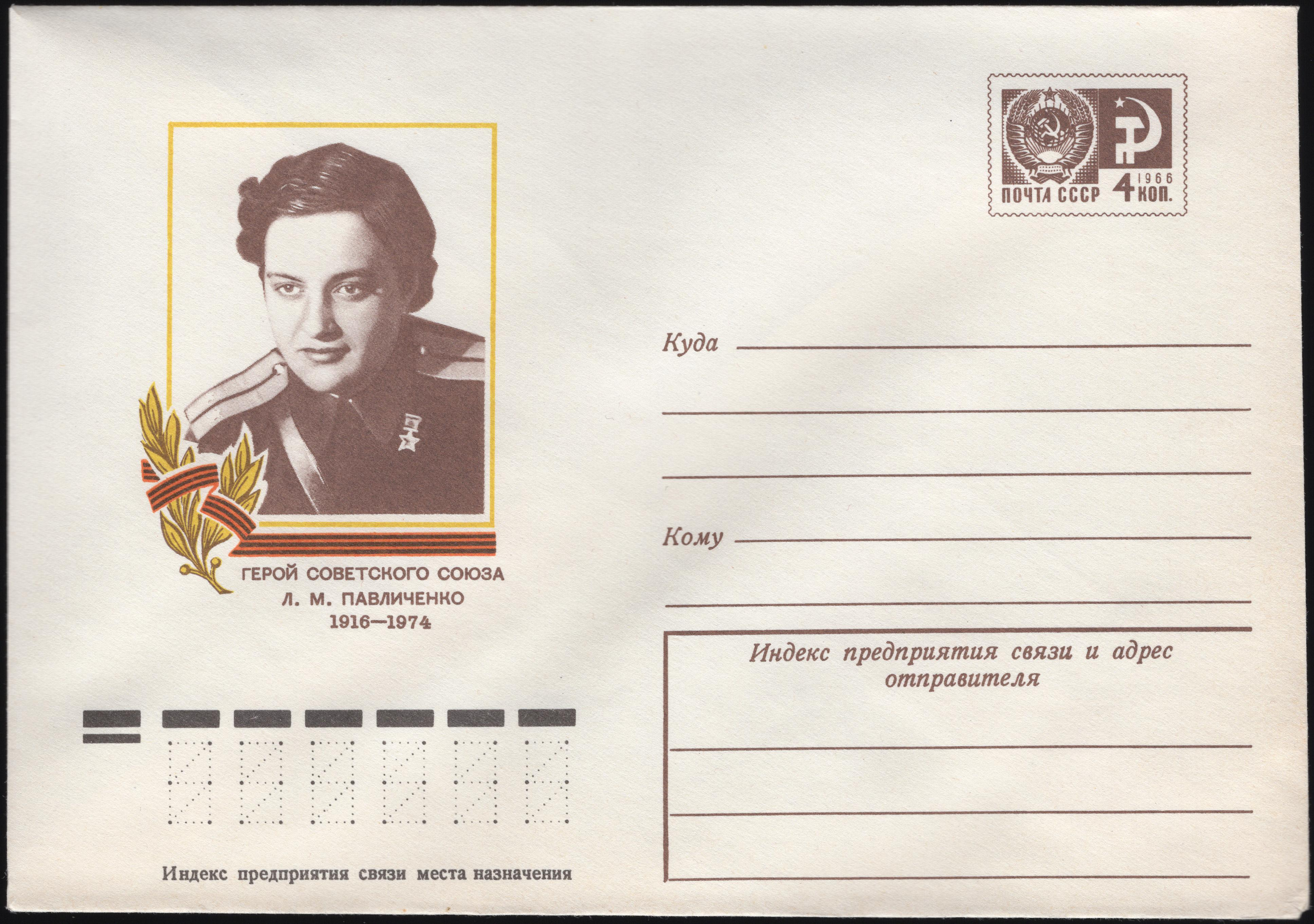 Hero of the Soviet Union Lyudmila Pavlichenko. 1916-1974. Series: Heroes of the Soviet Union. Artist Cherkasova N.